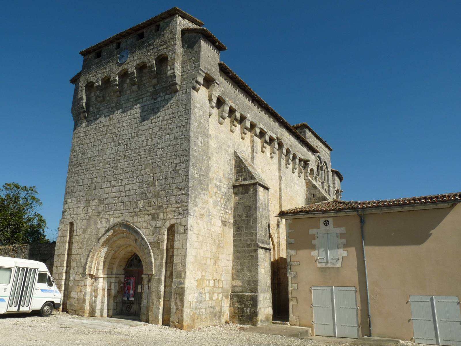 fortified church of Charras, Charente, SW France